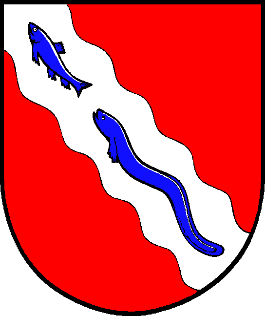 Coat of arms of Fockbek Blasonierung: In Rot ein schrägrechter silberner Wellenbalken, nach der Figur belegt mit einem blauen Hering und einem blauen, den Hering verfolgenden Aal.